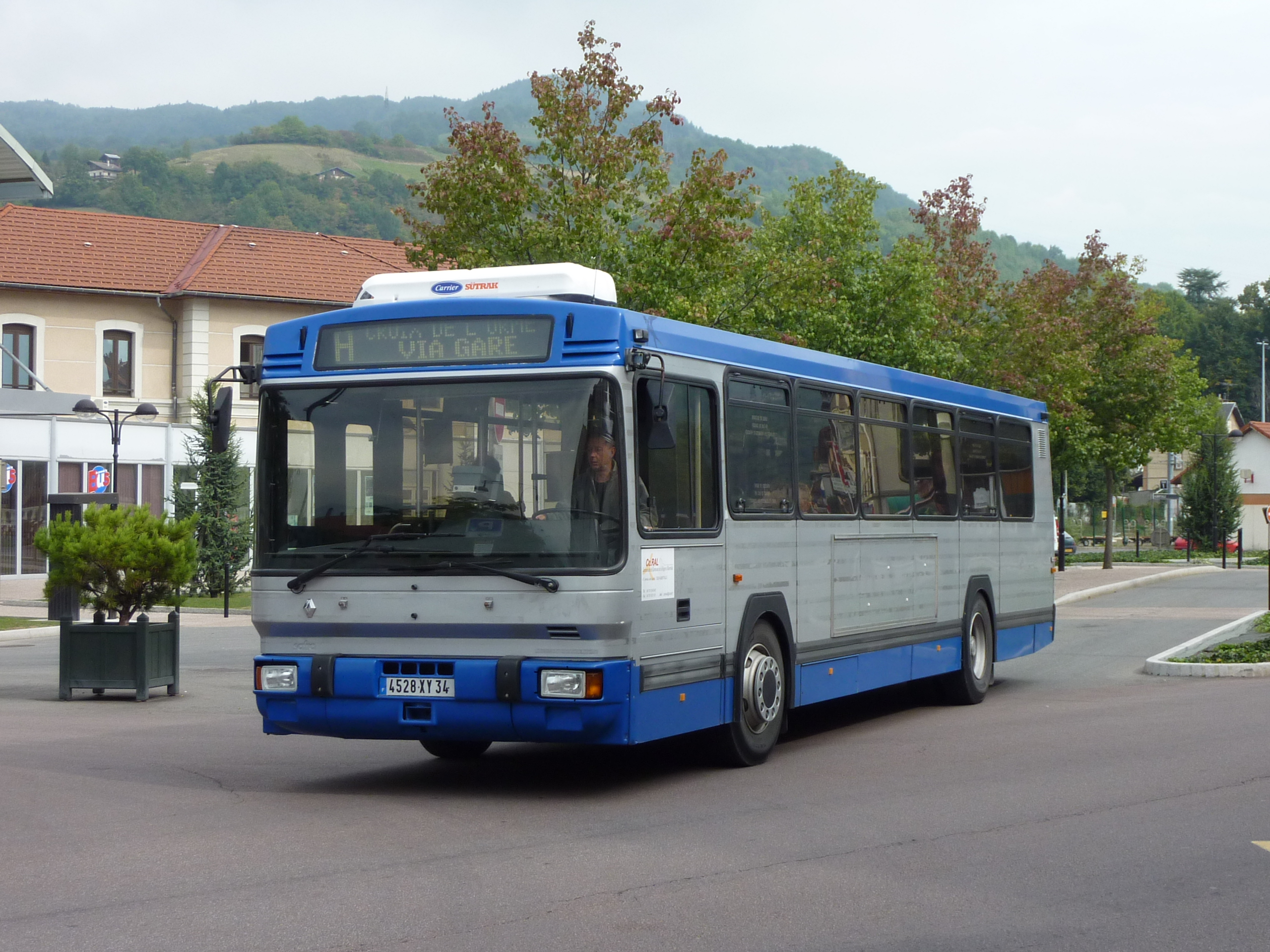 A Renault PR 112 (former n°614 of Transdev Pays d’Oc Mobilités), carrying out the line A of the bus network Je prends le BUS — Chiriac, Albertville↔Croix de l’Orme, Albertville — and running in the Avenue du Général de Gaulle (Albertville, France) on September 16, 2009.